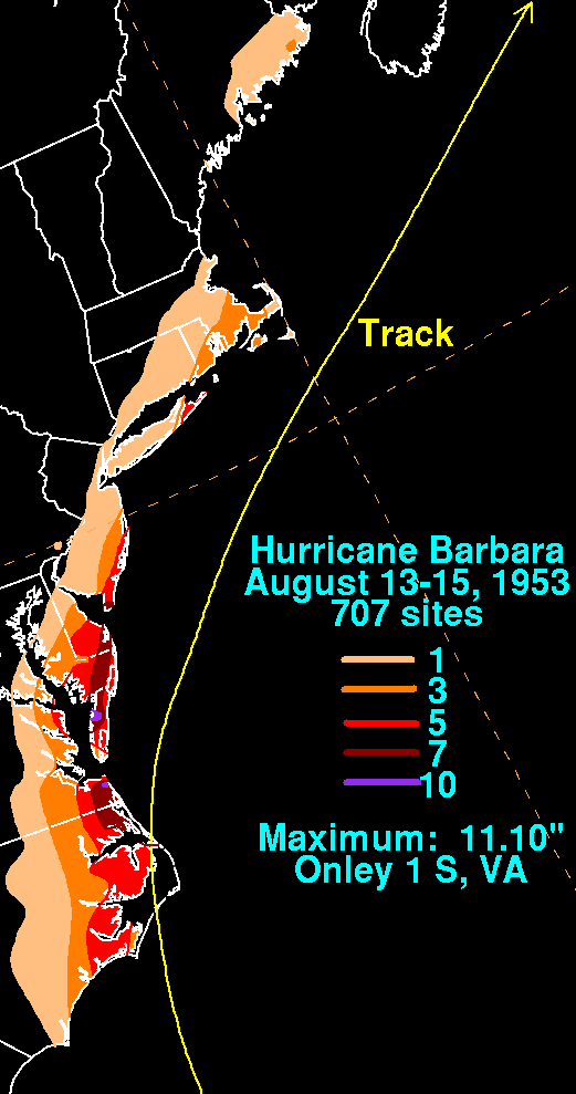 Storm total rainfall map of Hurricane Barbara during August 1953.